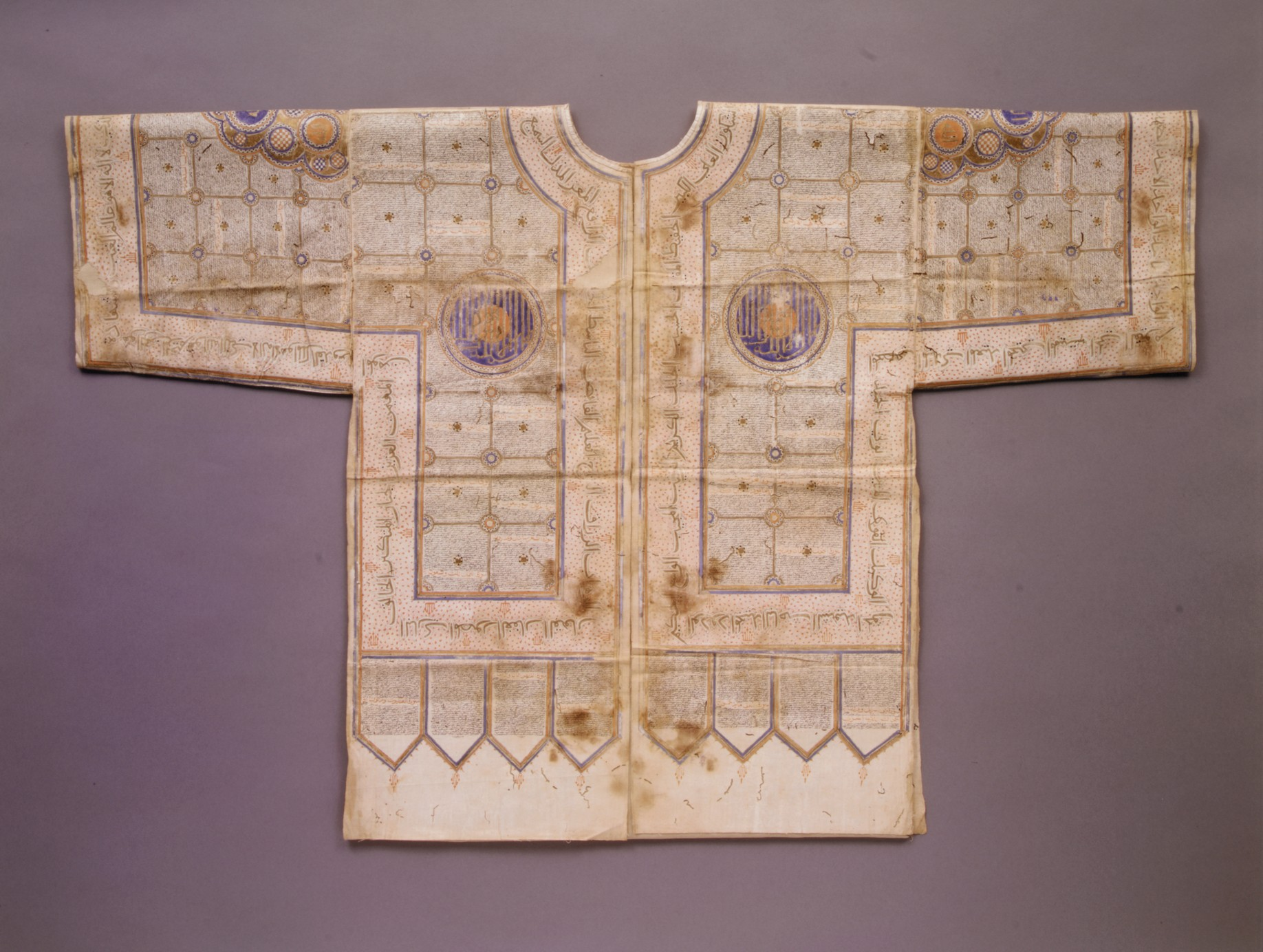 Shirt; Textiles